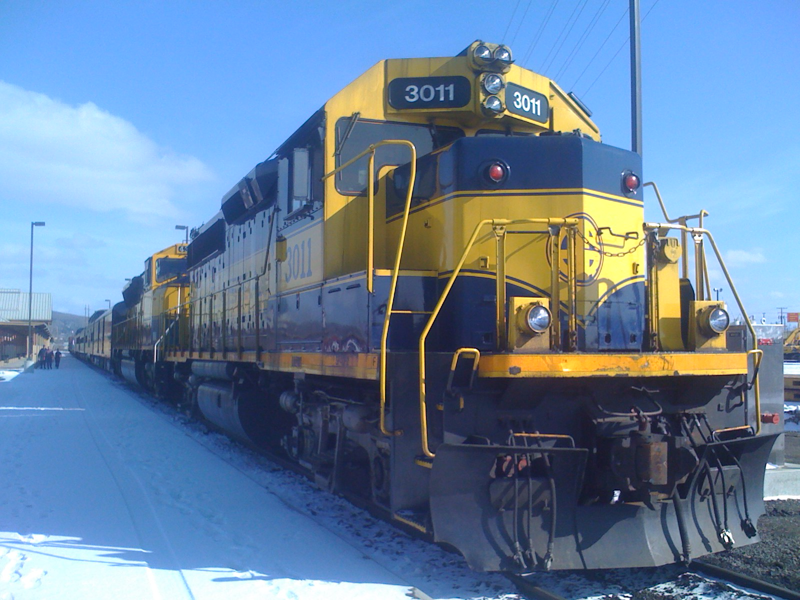 Alaska Railroad Locomotive